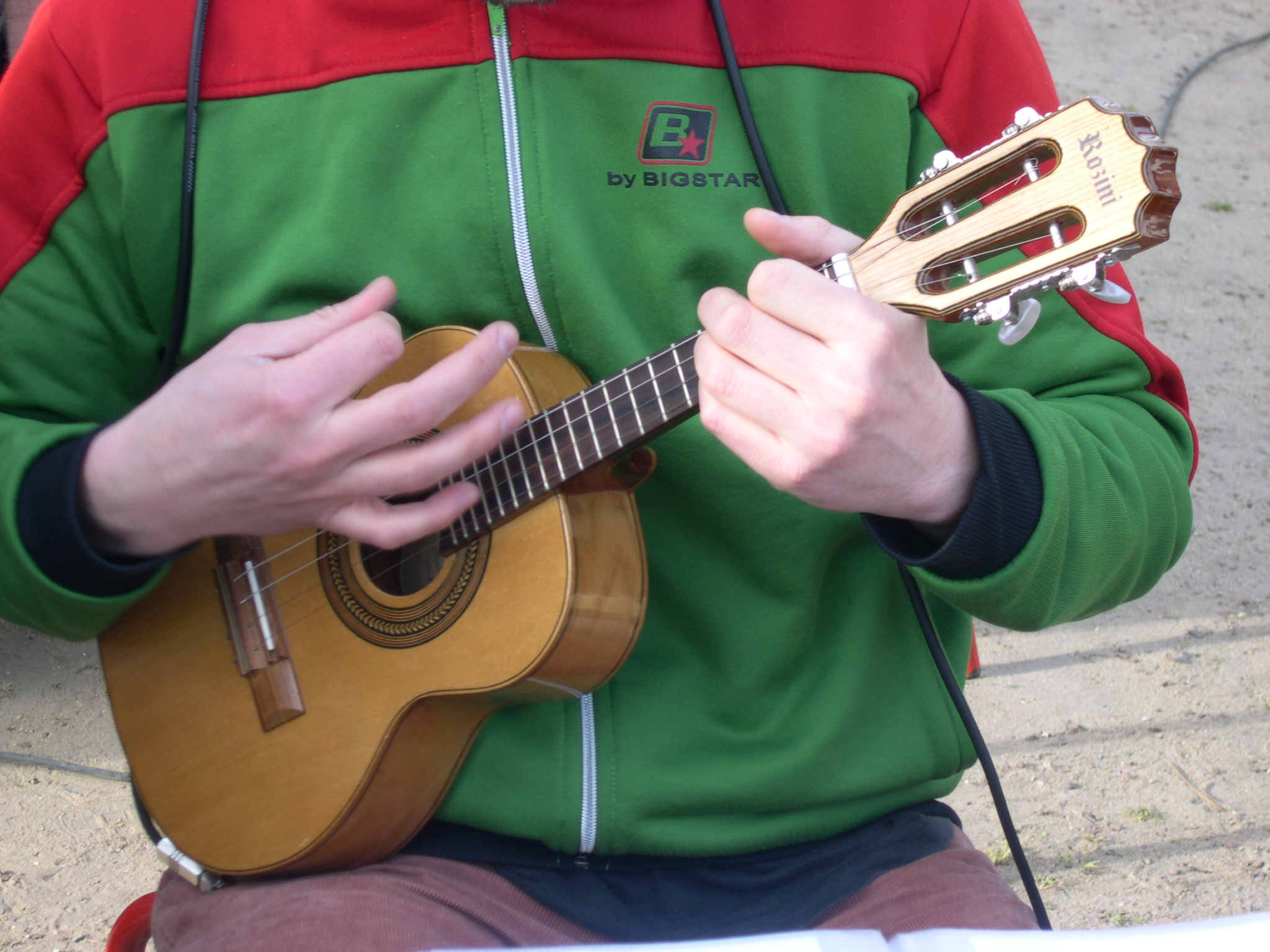 Cavaquinho in use.